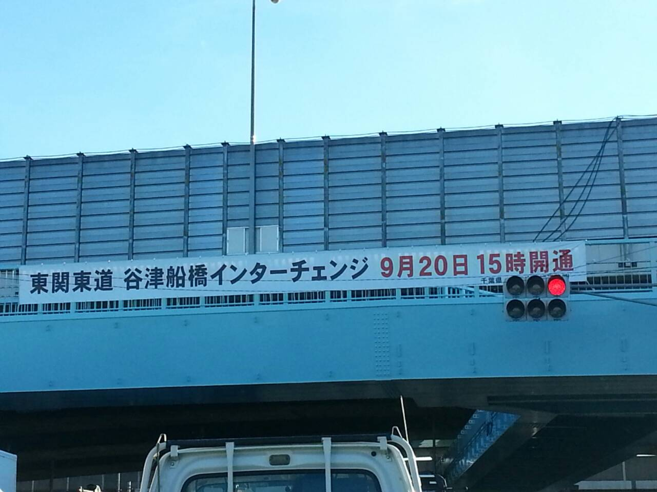 Photo of the banner for Yatsu Funabashi IC opening on 9/20 at 15:00